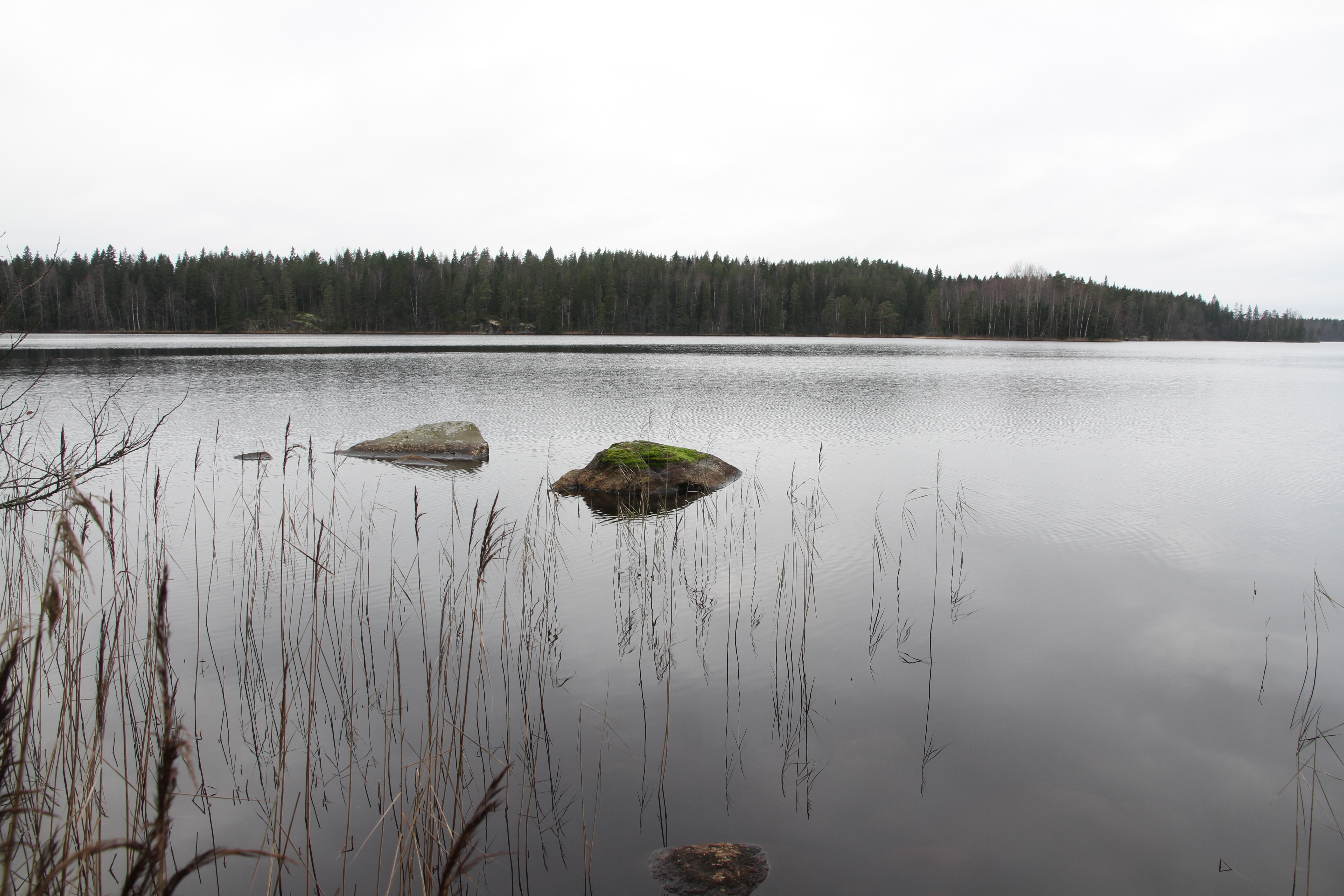 Liesjärvi National Park, Finland.